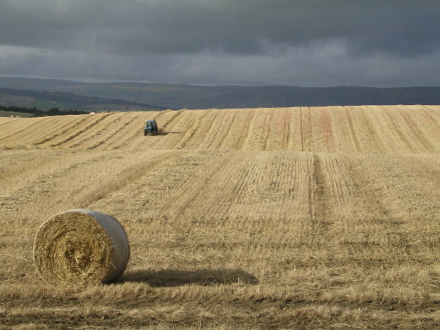 Harvest Time